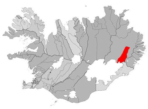 Based on Municipalities of Iceland.png.